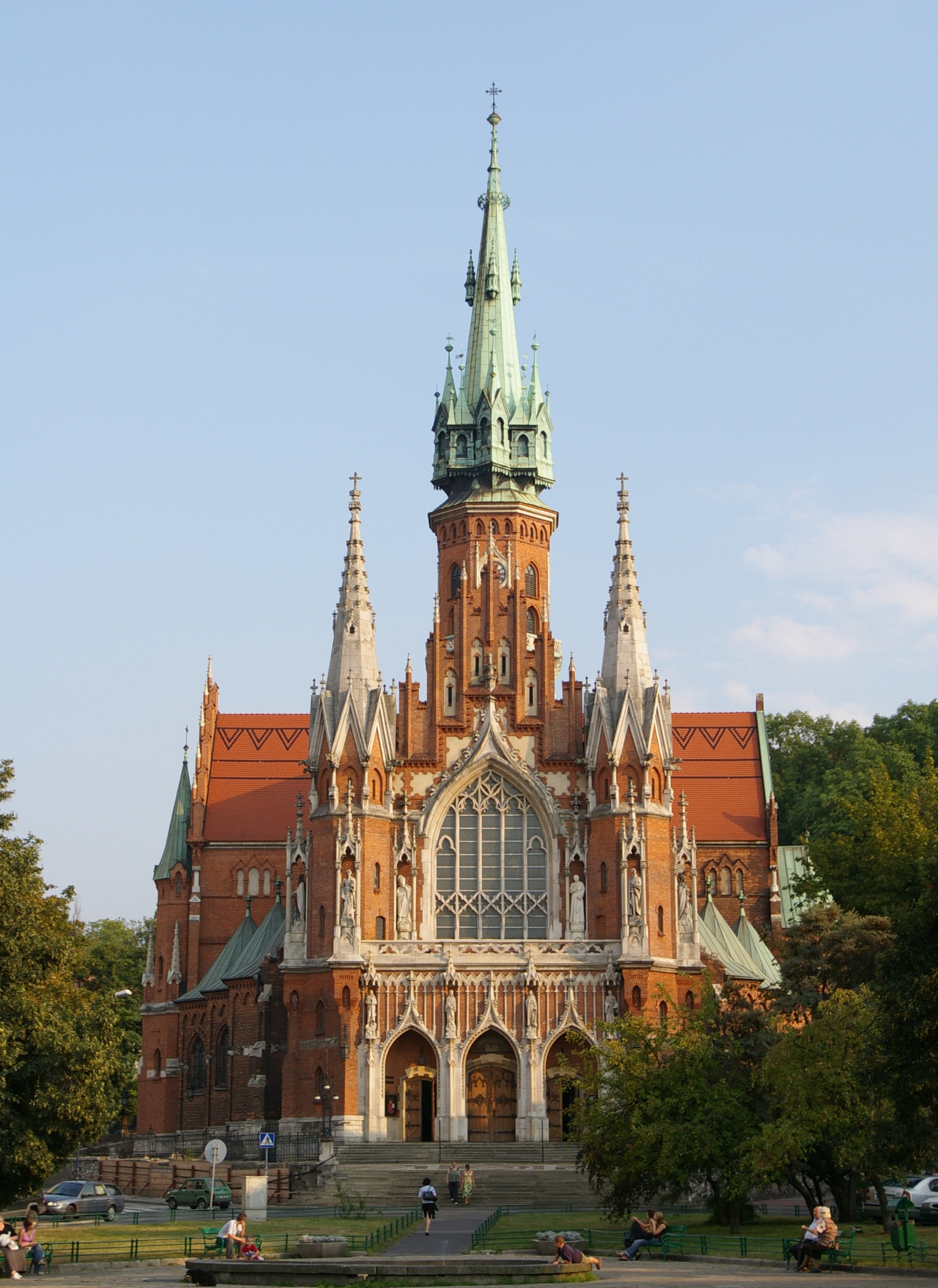 Saint Joseph church in the Podgórze district of Kraków